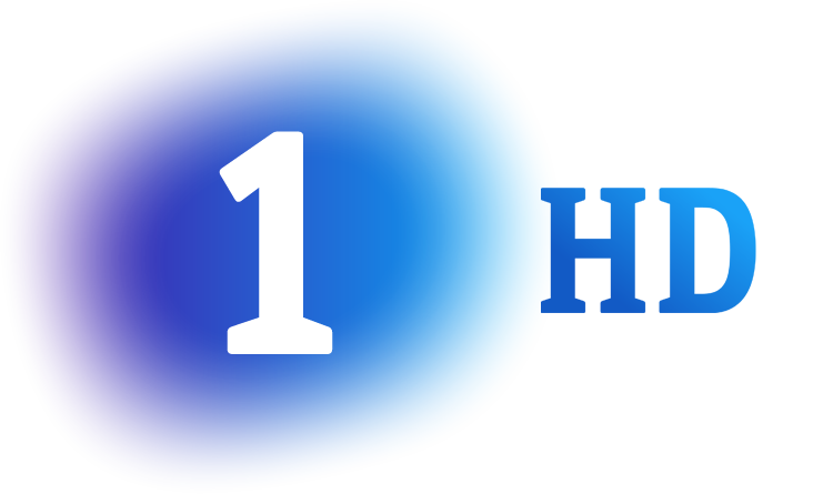 Logo of TVE1 HD (TVE)